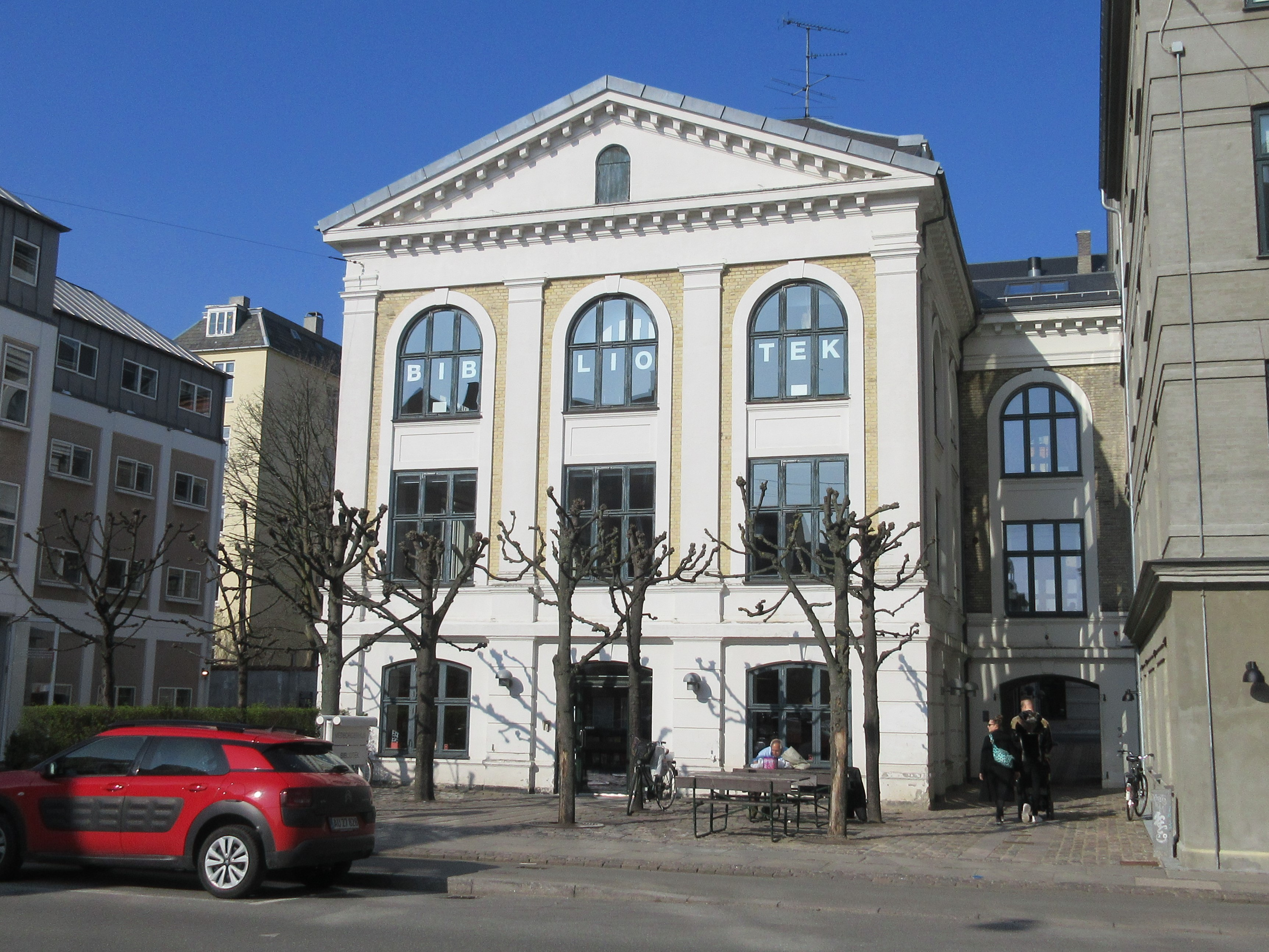 Biblioteket Danasvej at Danasvej 30B in Frederiksberg, Denmark